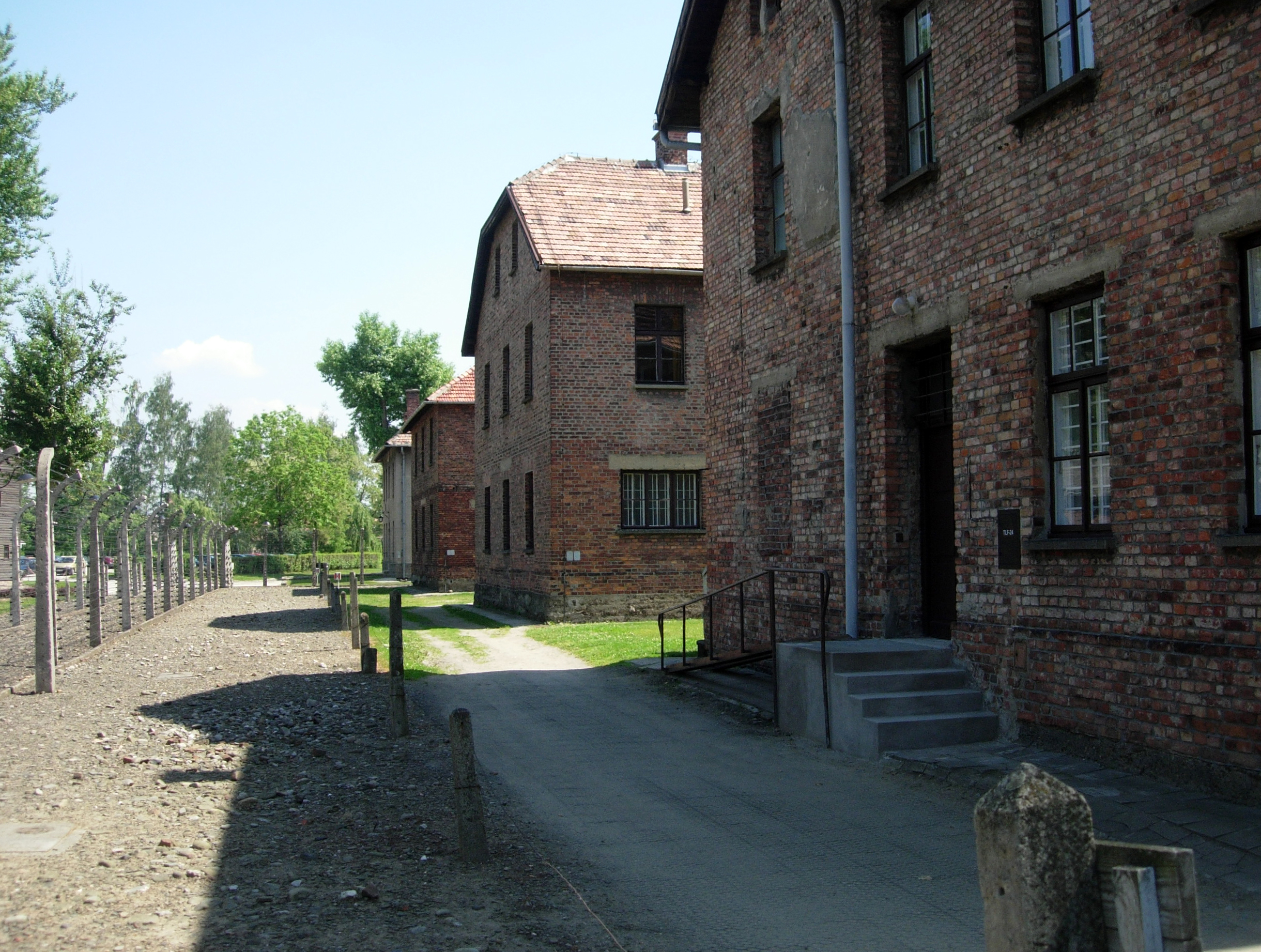 Auschwitz road